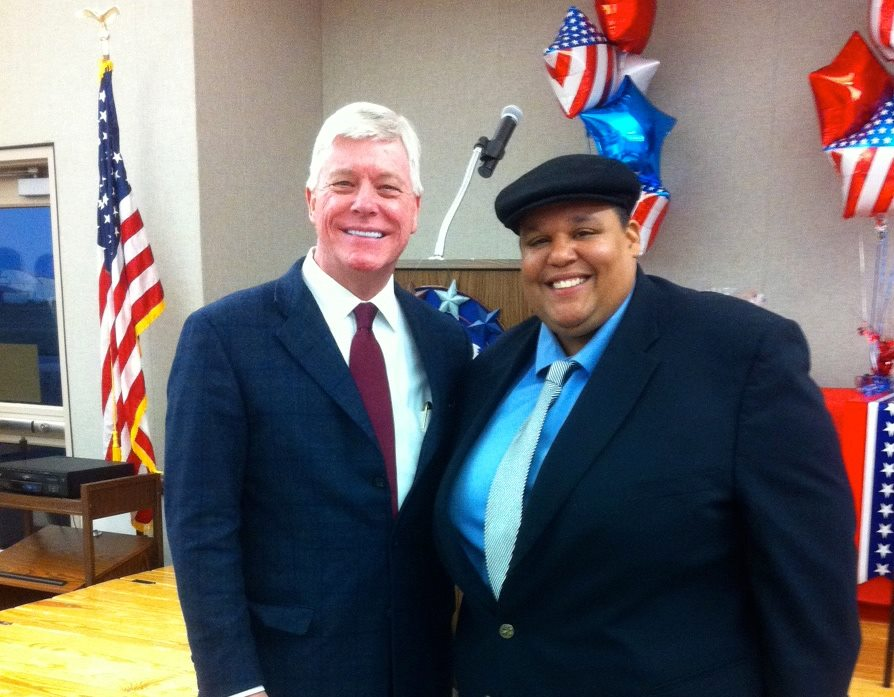 Neal E. Boyd (America's Got Talent Season 3) and former Missouri Lt. Gov. Peter Kinder